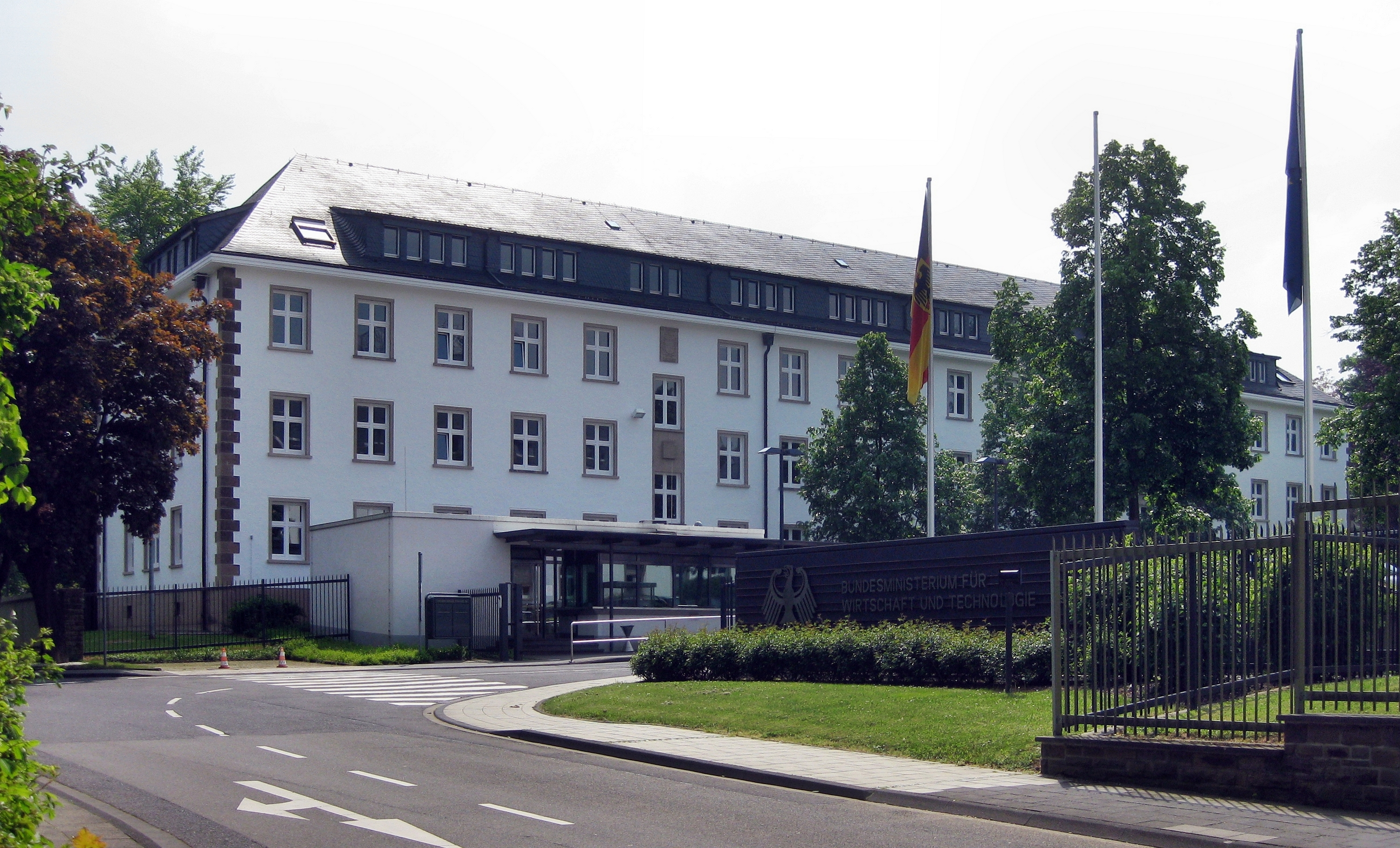 Federal Ministry of Economics and Energy Germany, Departement Bonn-Duisdorf (former barracks).